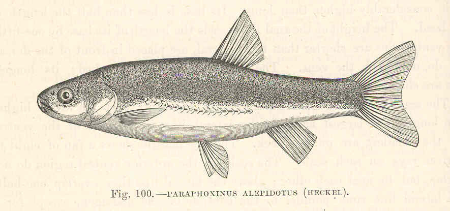 Paraphoxinus alepidotus (Heckel) Subject: Phoxinellus, Paraphoxinus Tag: Fish